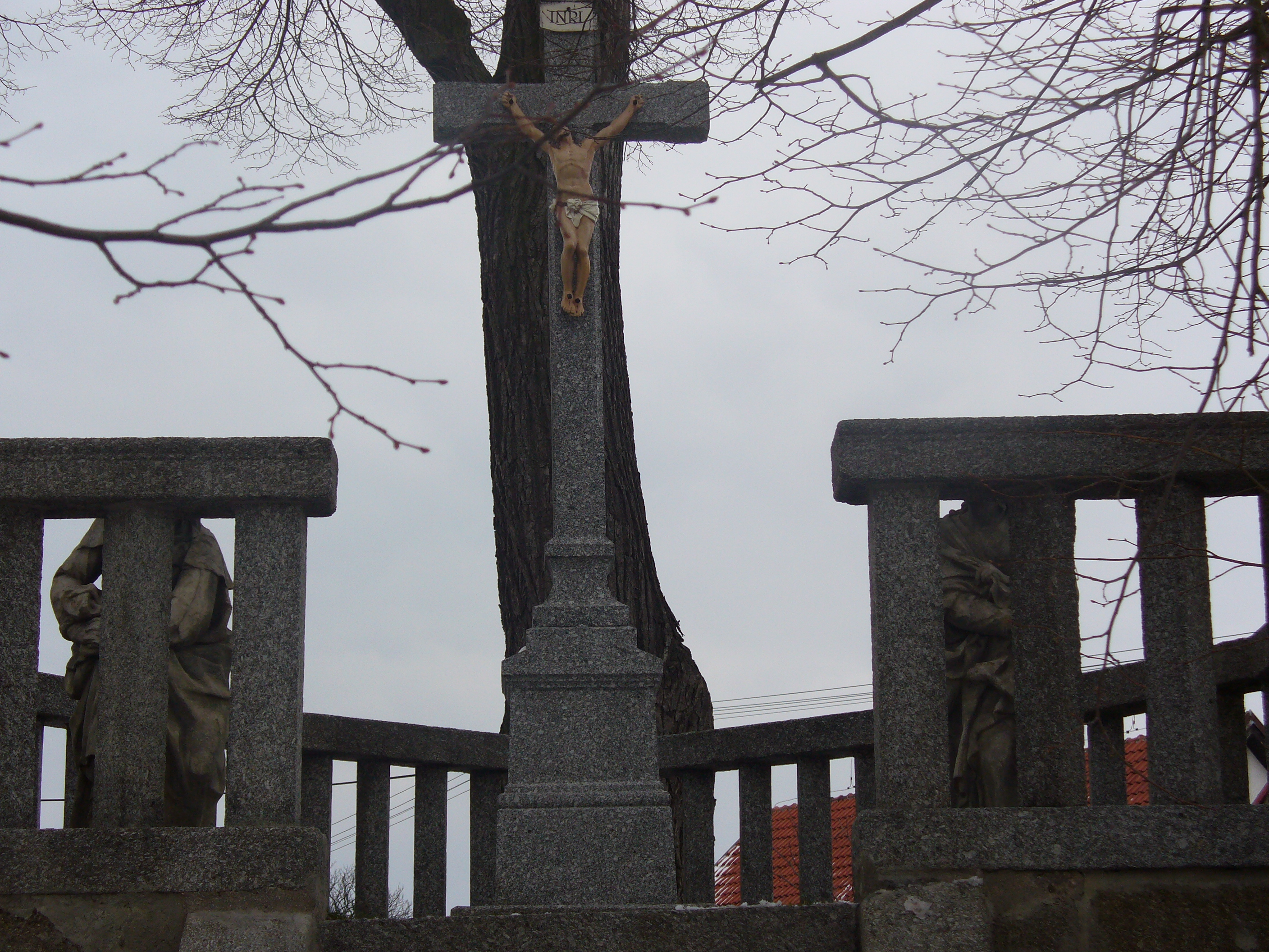 Sculpture Kalvárie in Kovářov